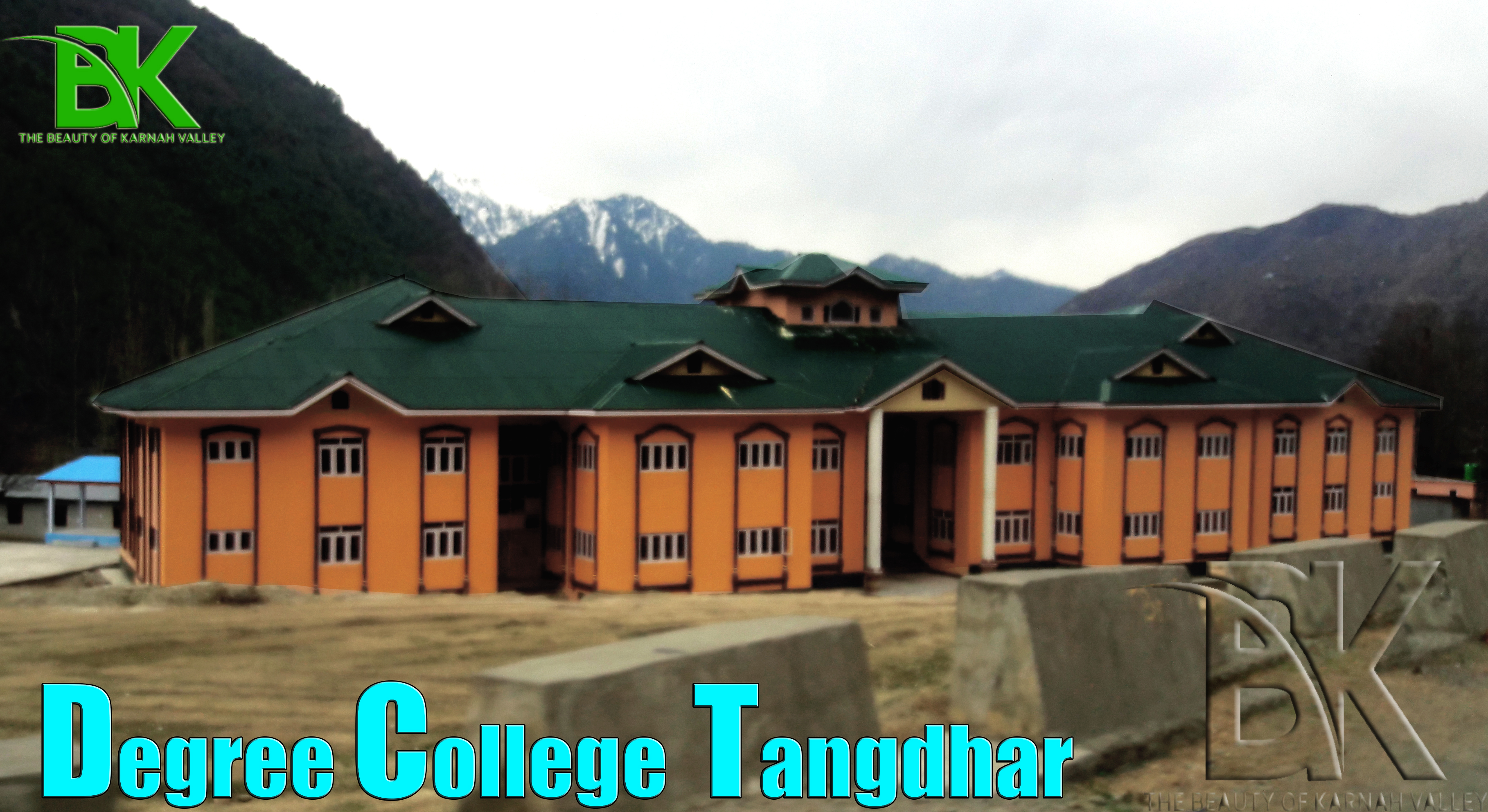 Govt. Degree College Tangdhar Karnah, (Urdu, گورنمنٹ ڈگری کالج ٹنگڈار) Karnah Kupwara, is a government college in Karnah tehsil of Kupwara district in the Indian state of Jammu and Kashmir and was established in April 2008. It is the only college in Karnah